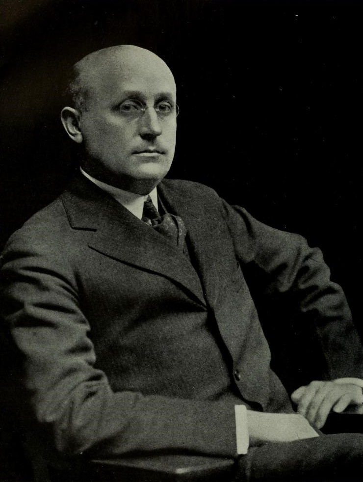 Portrait of J.C. Nichols